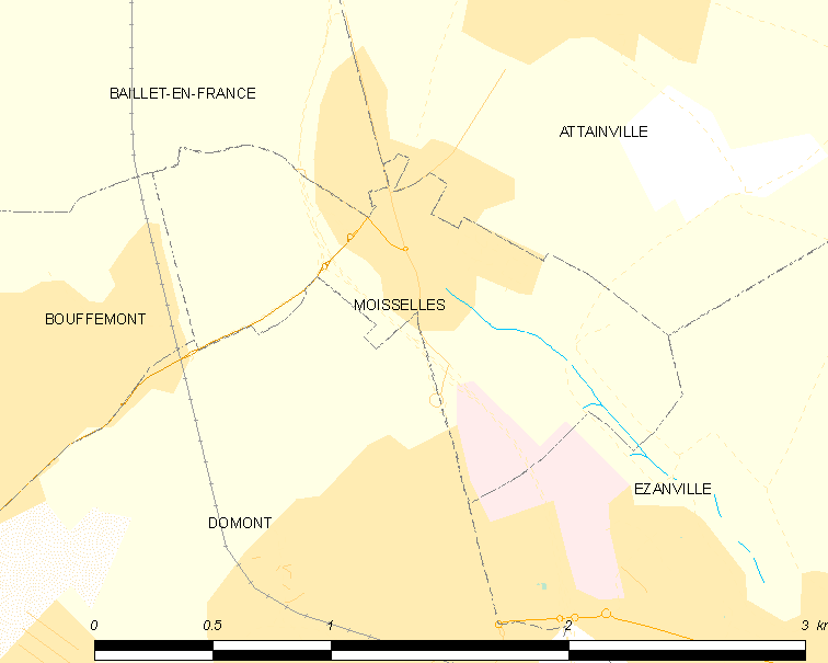 Map of French municipality Moisselles